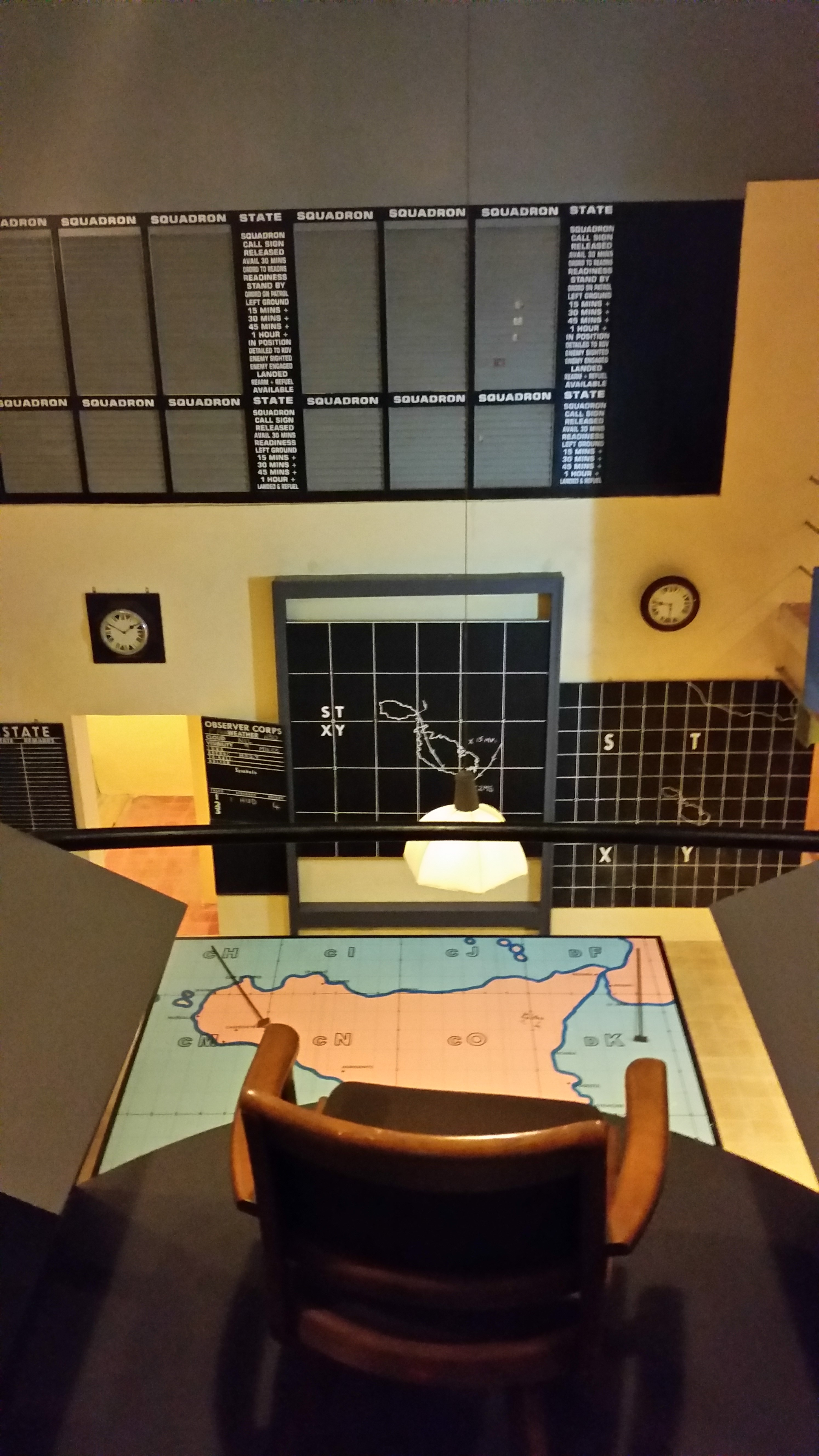 Lescaris War Room today